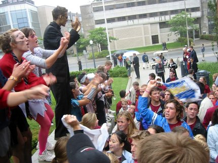 Frosh Week - Commerce students and their frosh leaders, also known as "Bosses". Front steps of Goodes Hall, Queen's University, opposite the Law buildings.